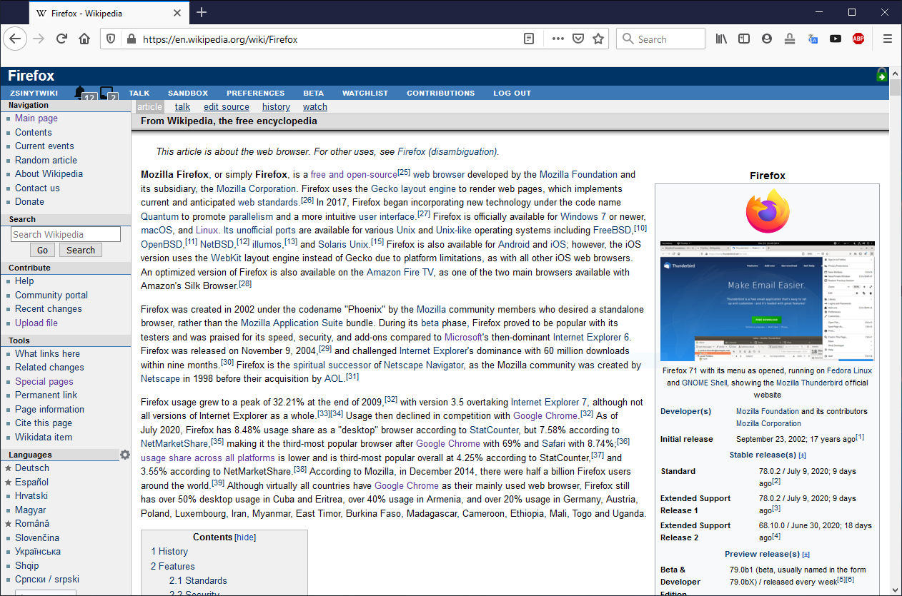 Firefox 78.0.2 running wikipedia